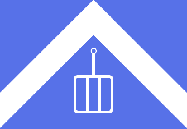 Flag of the belgian municipality of Malle.